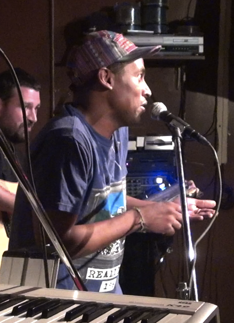 Wes Felton performing in Brooklyn in June 2012 at Frank's Lounge